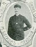 Portrait of IMARO member Dimitar Botkov from Razlog